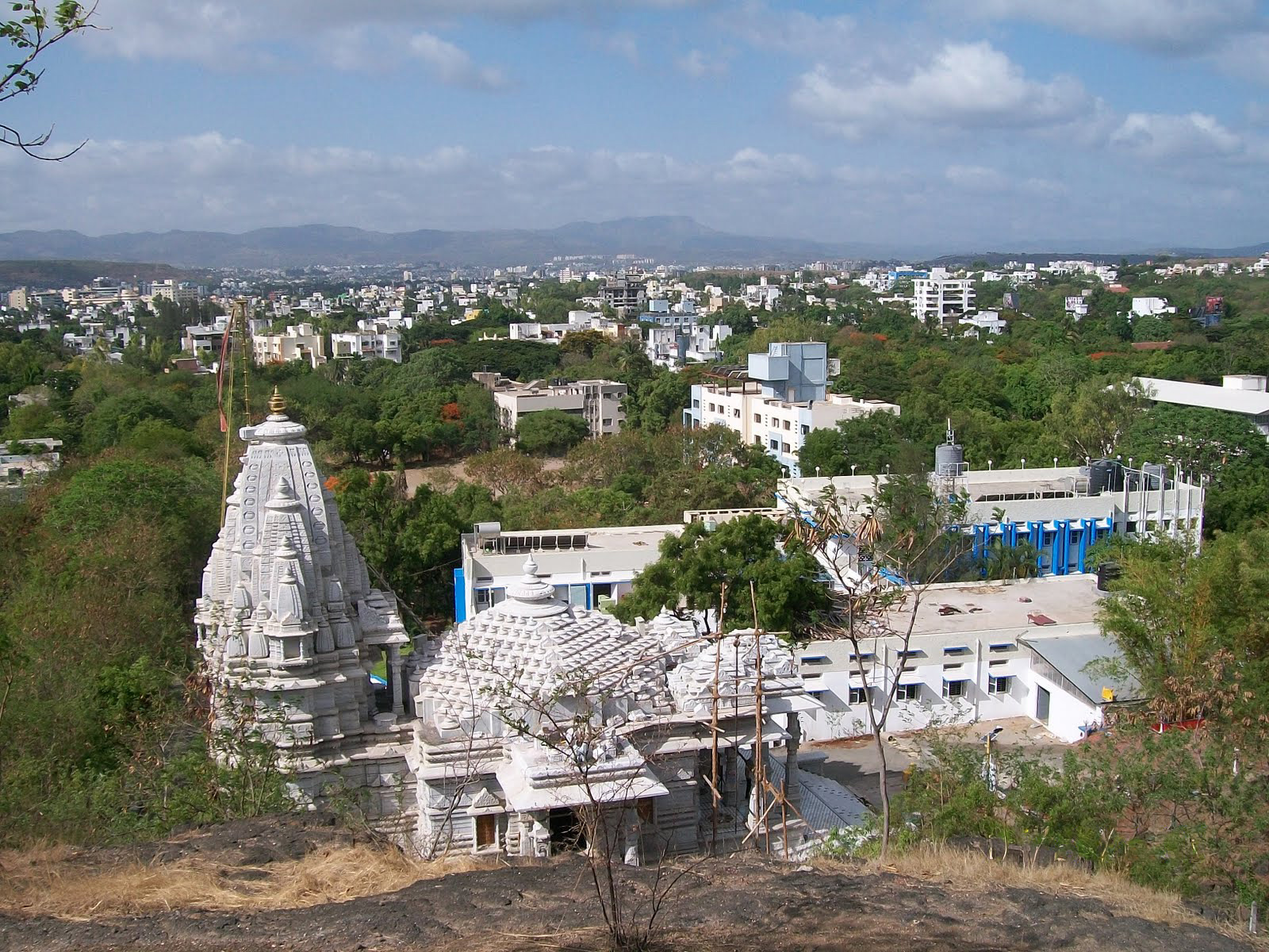 Mallinatha Jain Mandir from Hilltop in Kosbad